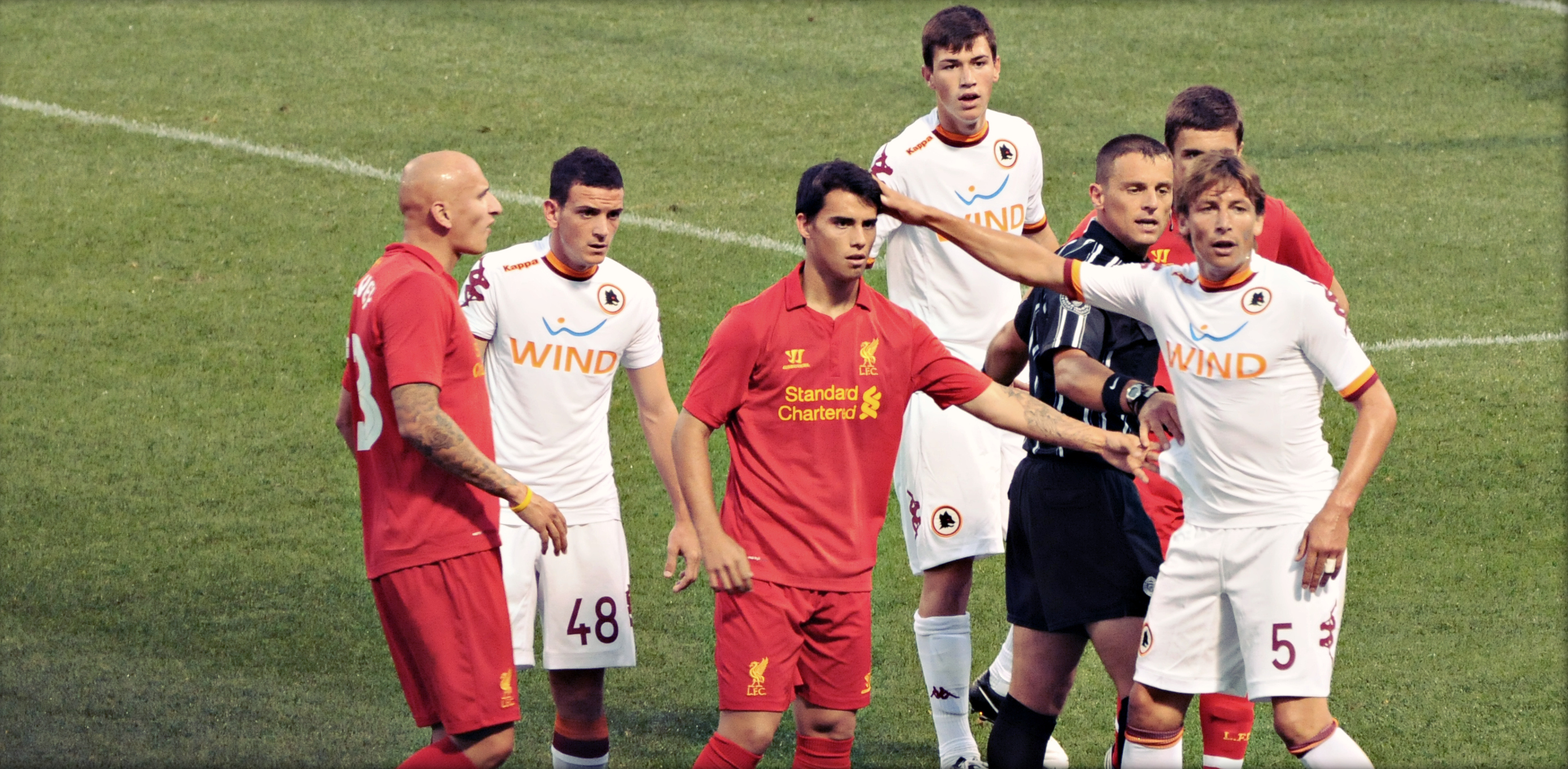 Heinze acknowledging his foul on Suso (as Shelvey voices his discontent).